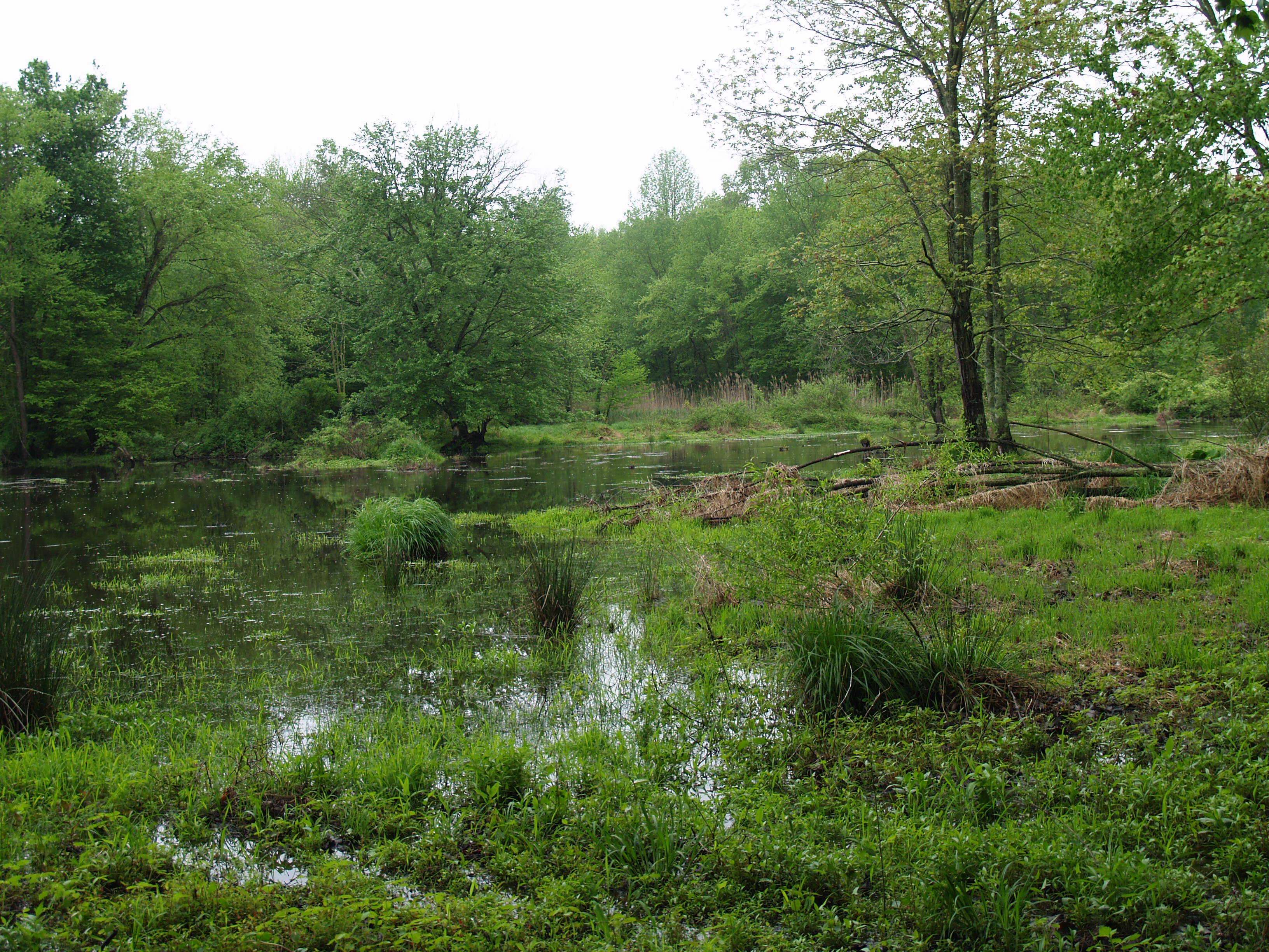 Sewell Branch (Andover Creek tributary) at the Delaware-Maryland Stateline in May 2009.